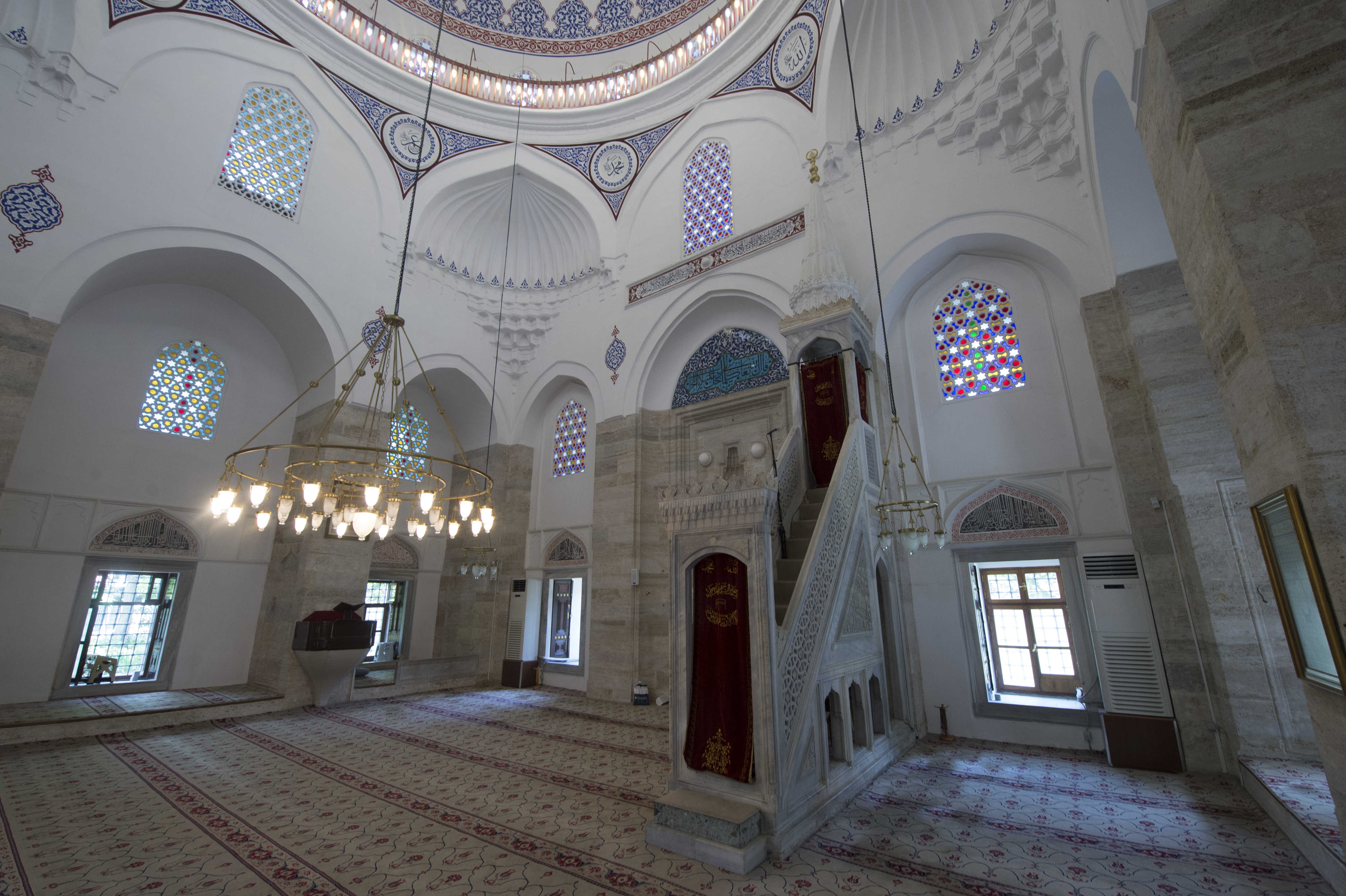 The mihrab is hidden by the minber